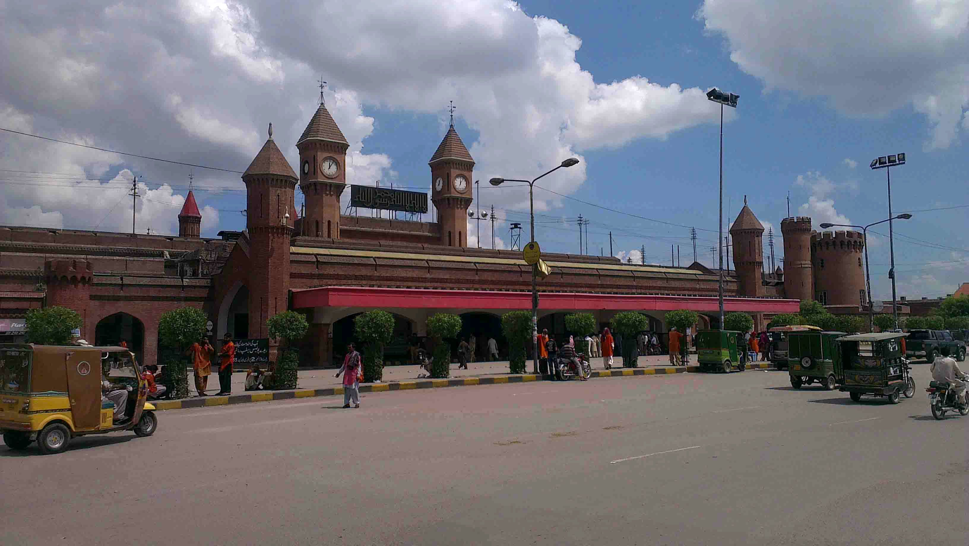 Lahore Junction Railway Station